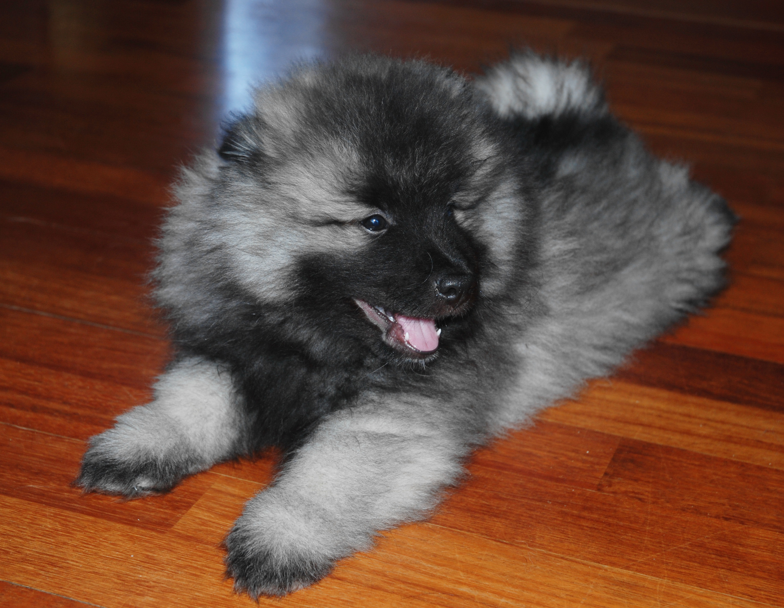 7 weeks old Keeshond puppy, born in Norway.